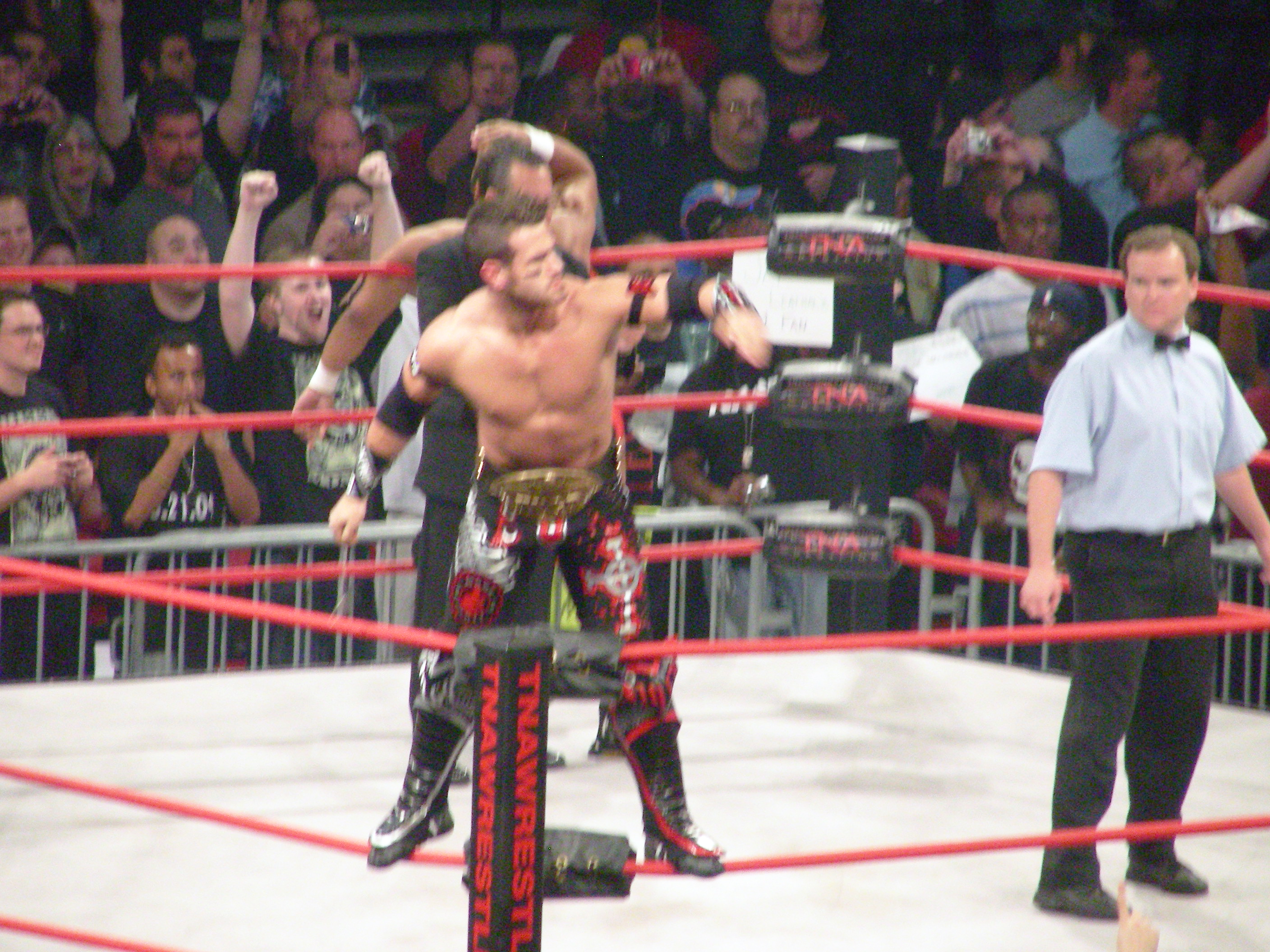 Alex Shelley in the ring, as one half of the IWGP Junior Heavyweight Tag Team Champions